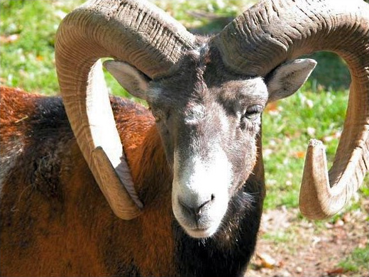 Mufflon (Ovis orientalis musimon)